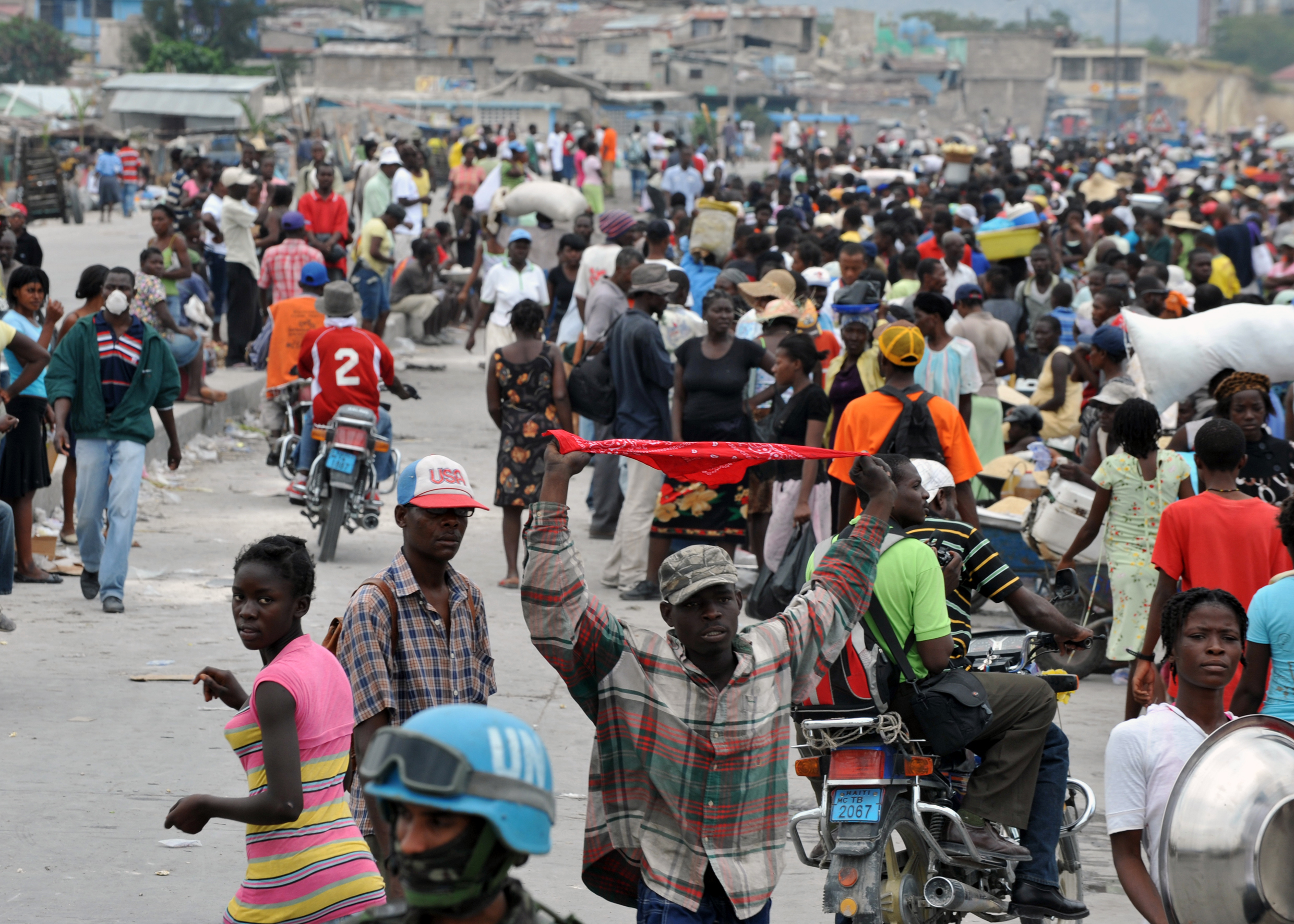 After the 2010 Haiti Earthquake, the streets of the Port-au-Prince neighborhood of Bel-Air receive a much greater influx of passers-by, many of whom are now homeless.